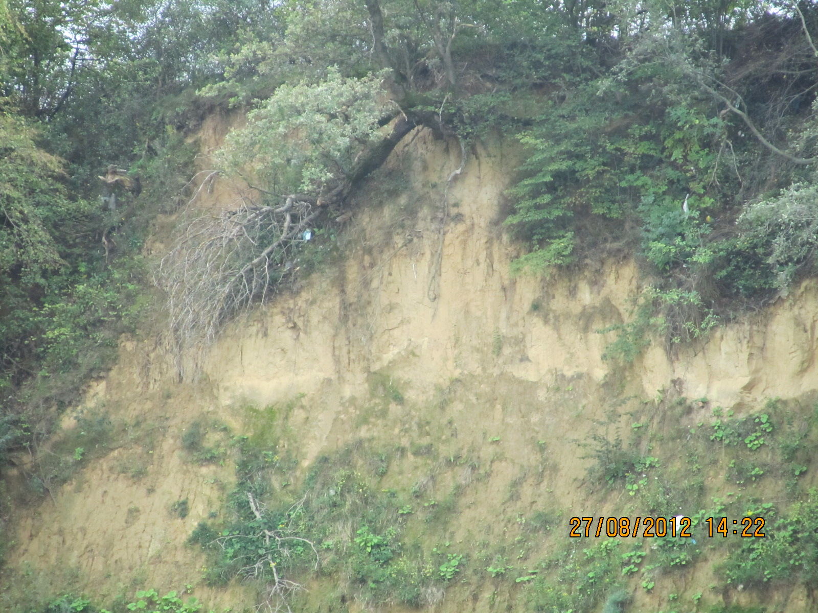 річка Луква біля села Комарів